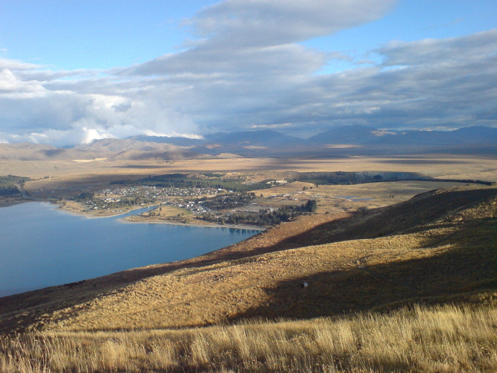 Lake Tekapo township on the shores of Lake Tekapo, New Zealand, as seen from Mount John Observatory to the northwest.